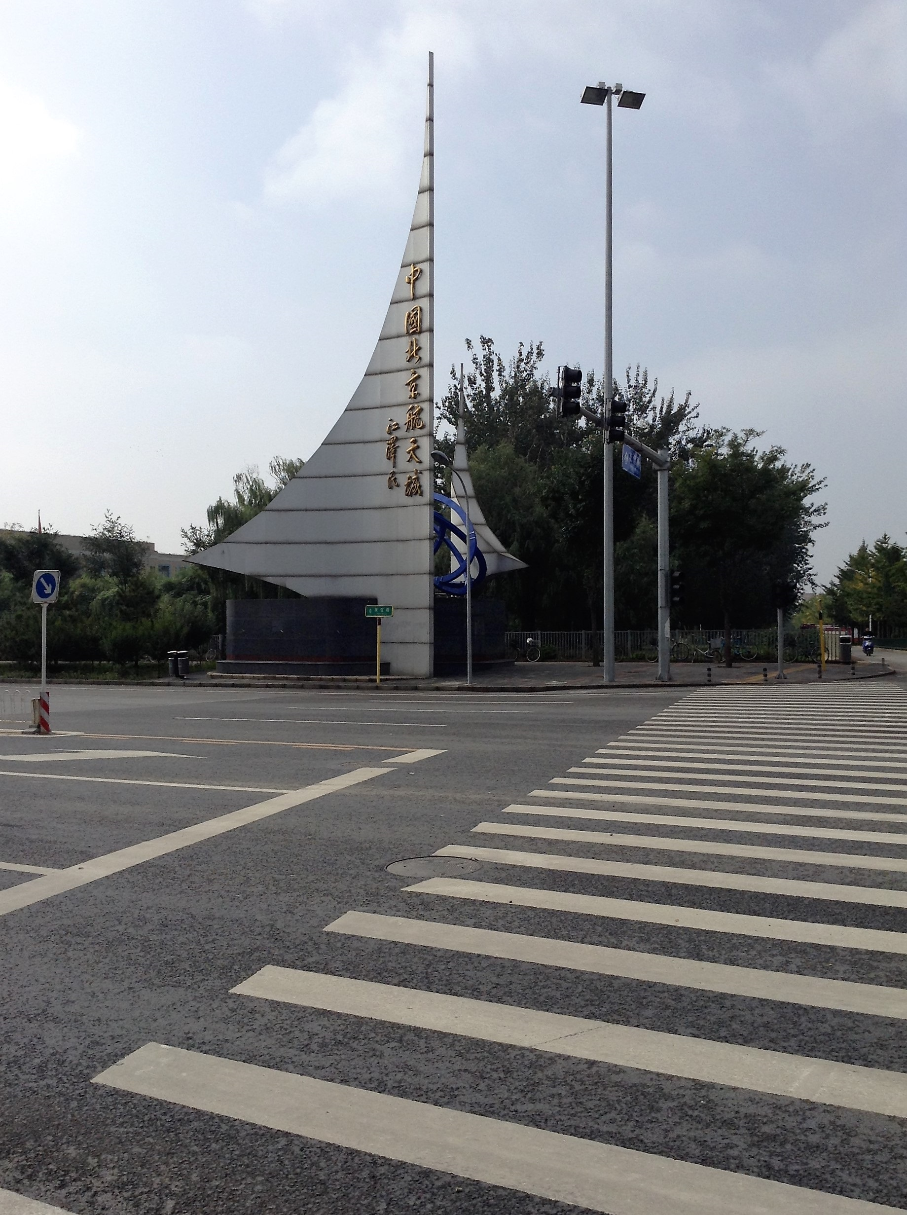 The entrance to the Beijing Aerospace Command and Control Center. This is a more recent photograph than the 2009 image on wikipedia.